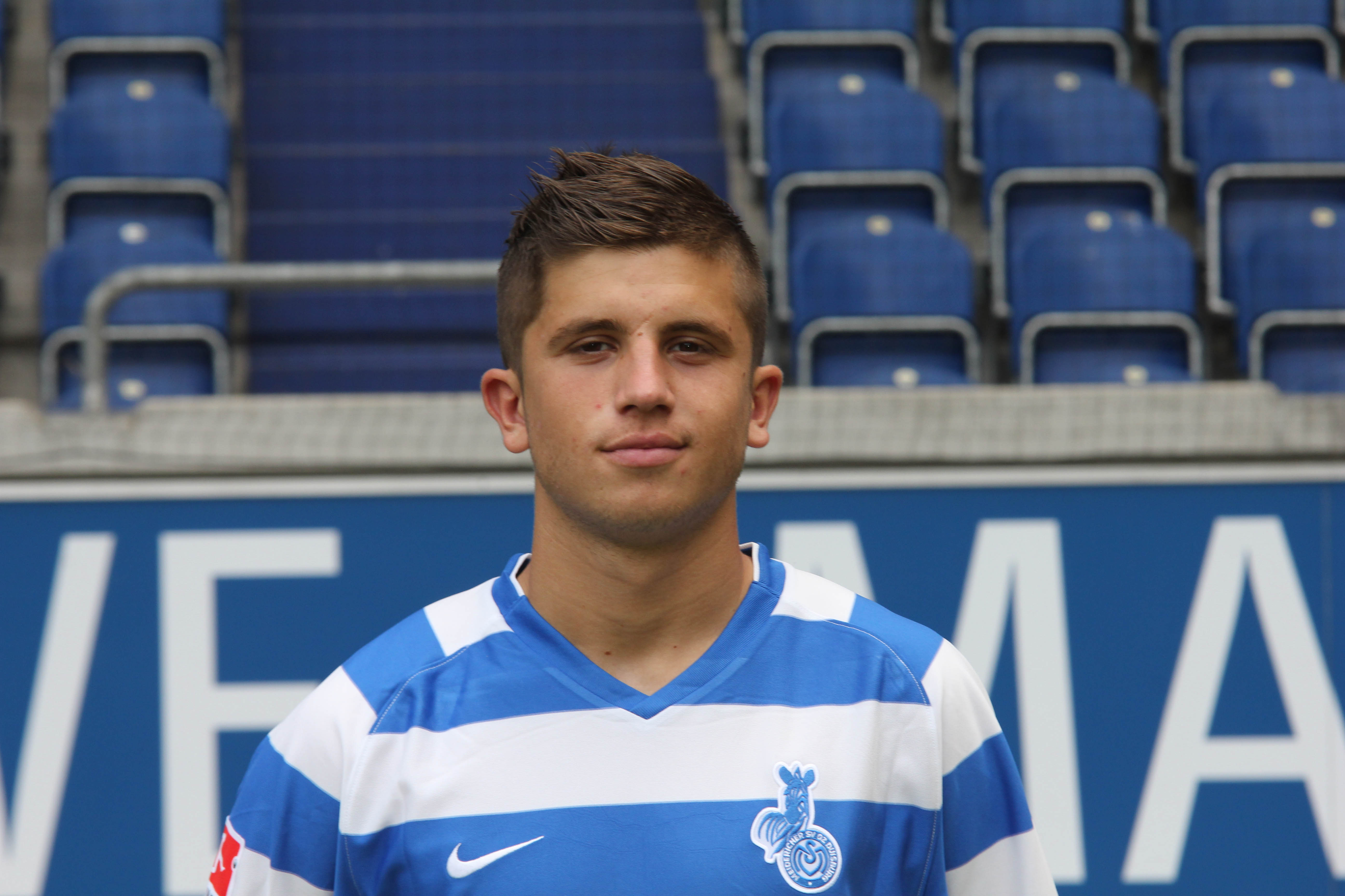 Bosnian-German football player Dušan Jevtić, MSV Duisburg